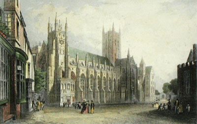 Canterbury Cathedral by Thomas Mann Baynes (1794-1854). This print was made by hand-colouring a restrike etching.